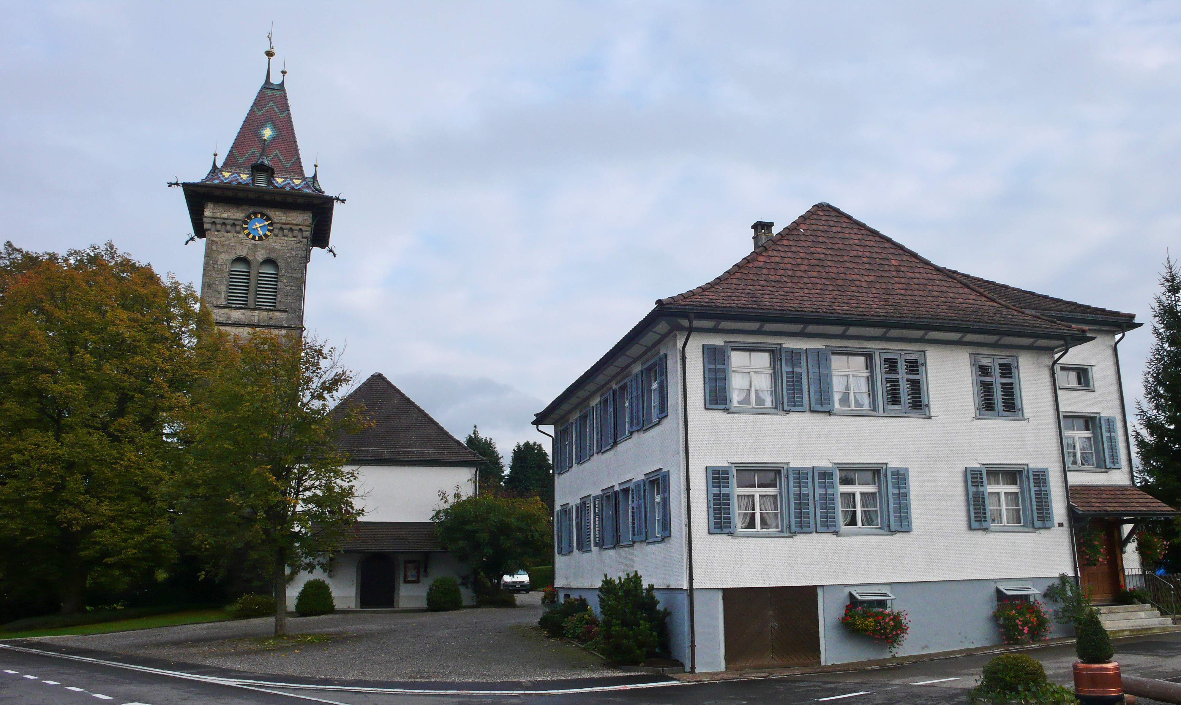 Church and rectory of Oberhogeh in the canton of Thurgau, Switzerland.